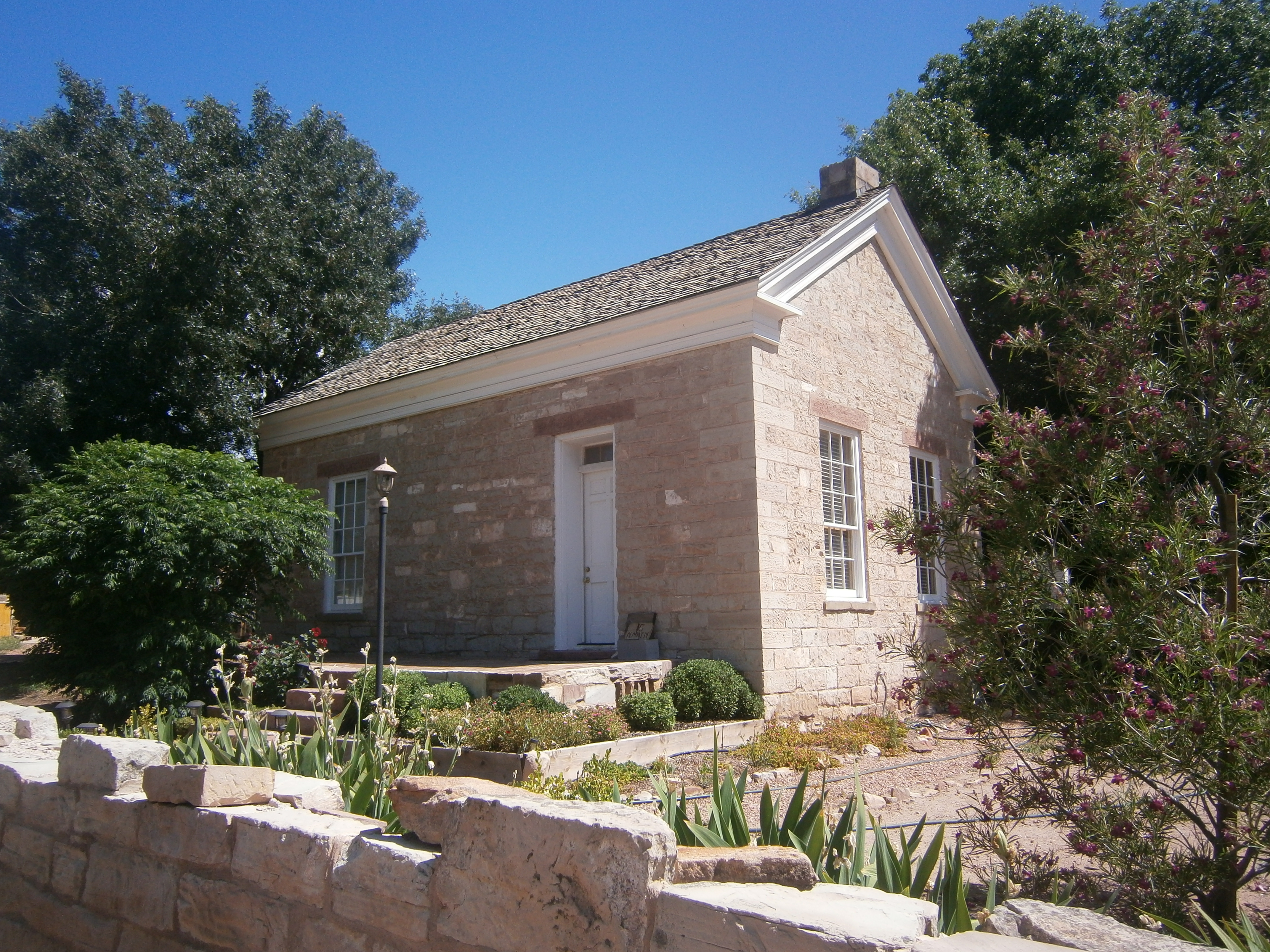 The Leeds Tithing Office, a historic building in, Utah, United States.